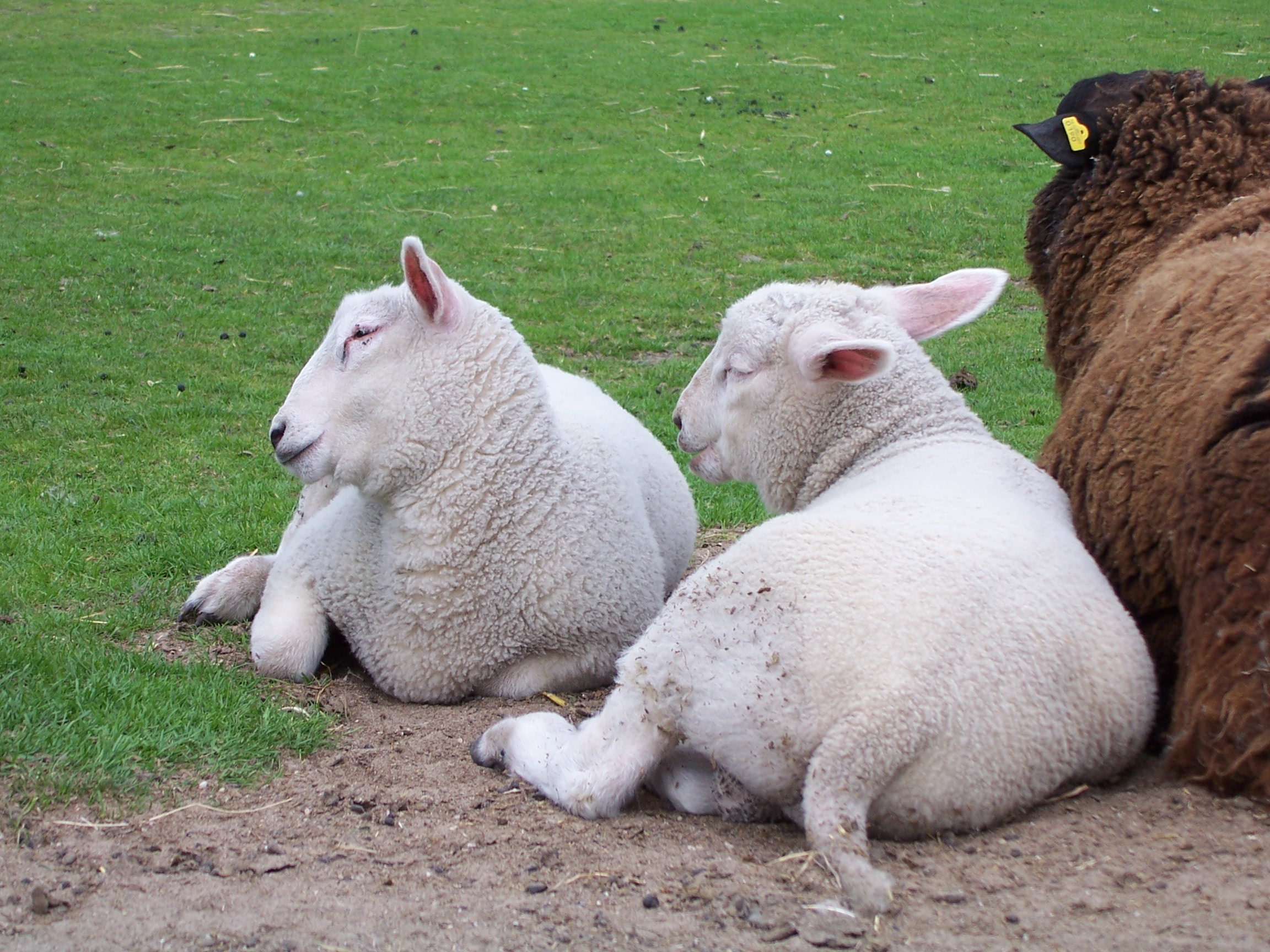 A self made picture of sheep.